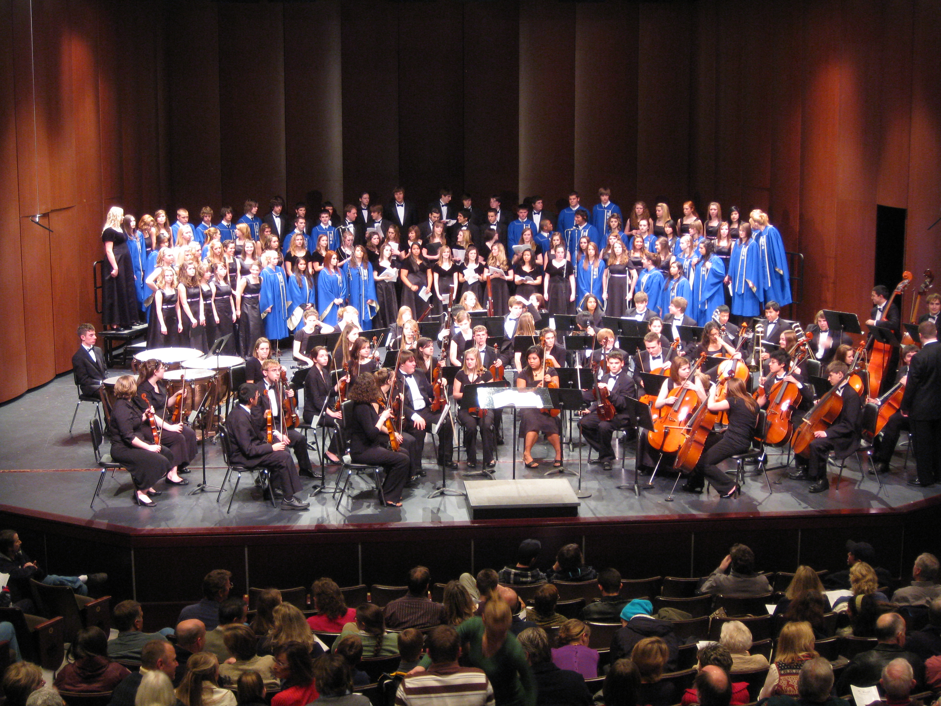 This is Bothell's combined orchestra and choirs performing the Messiah.